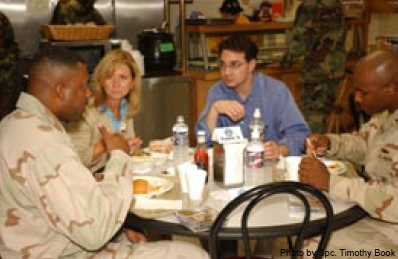 JTF Troopers had lunch with Rep. Marsha Blackburn (R-Tenn.) and Matthew Waxman, Deputy Assistant Secretary for Defense for Detainee Affairs, at Café Carribe last weekend.